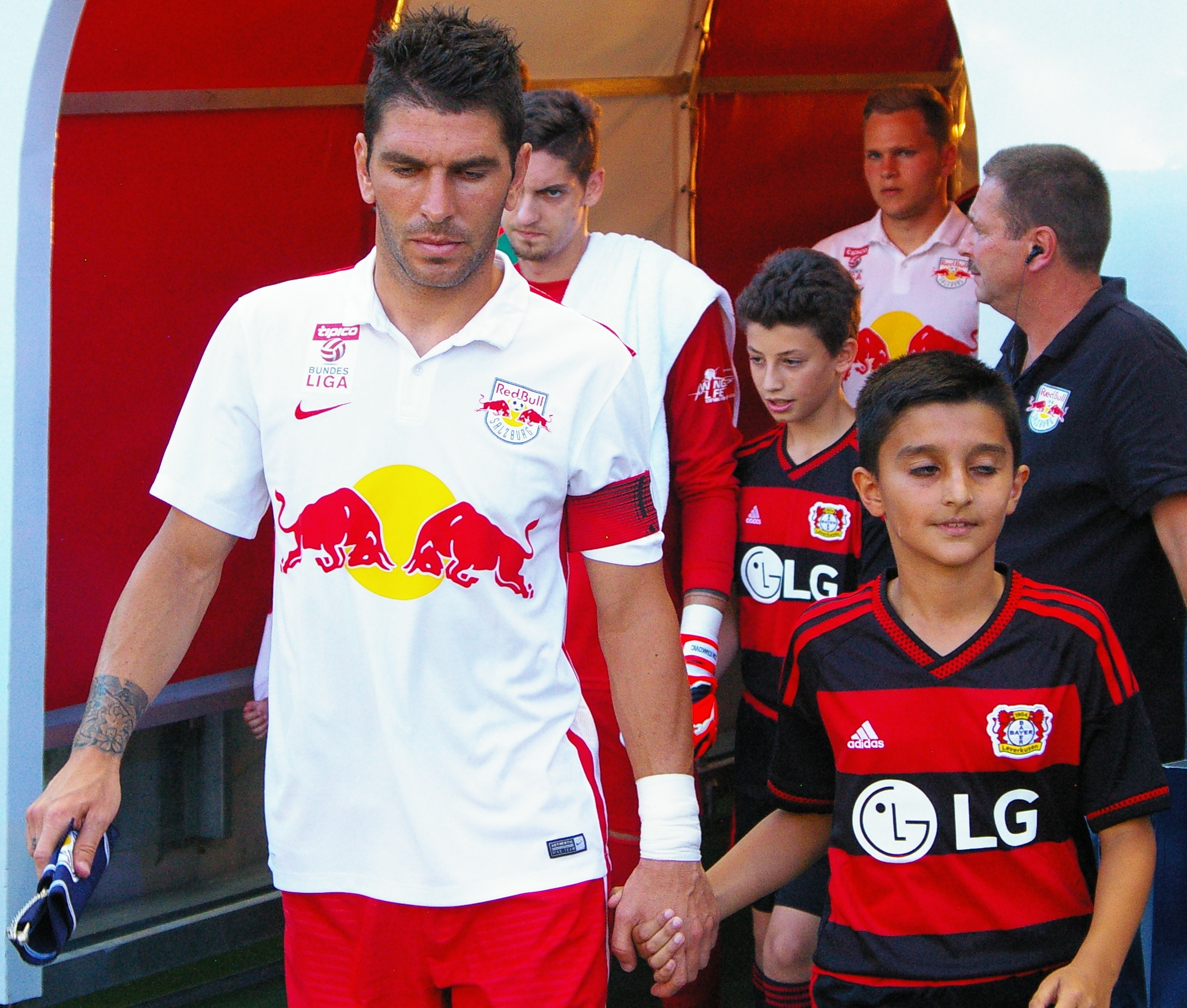 friendly match preseason 2015/16